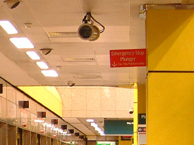 A closed-circuit security camera at Toa Payoh MRT Station in Singapore.